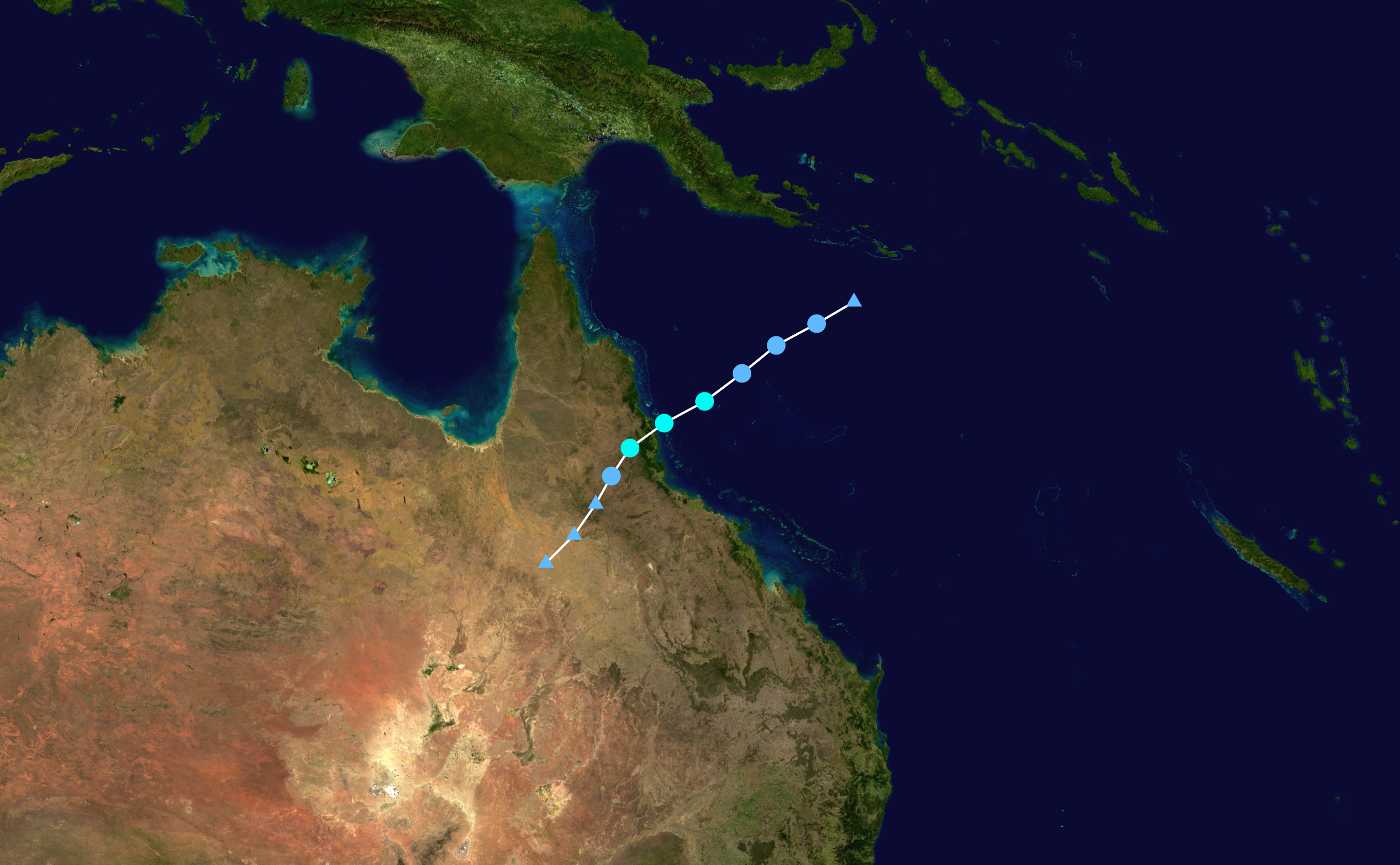 Track map of Tropical Cyclone Tasha of the 2010-11 Australian region cyclone season. The points show the location of the storm at 6-hour intervals. The colour represents the storm's maximum sustained wind speeds as classified in the Saffir–Simpson scale (see below), and the shape of the data points represent the nature of the storm, according to the legend below. Saffir–Simpson scale Tropical depression≤38 mph≤62 km/h Category 3111–129 mph178–208 km/h Tropical storm39–73 mph63–118 km/h Category 4130–156 mph209–251 km/h Category 174–95 mph119–153 km/h Category 5≥157 mph≥252 km/h Category 296–110 mph154–177 km/h Unknown Storm type Tropical cyclone Subtropical cyclone Extratropical cyclone / Remnant low / Tropical disturbance / Monsoon depression